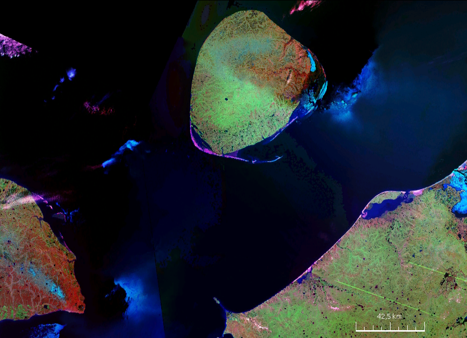 NASA World Wind Screen Shot (Geocover 2000) of Kolguyev Island, Russian Arctic